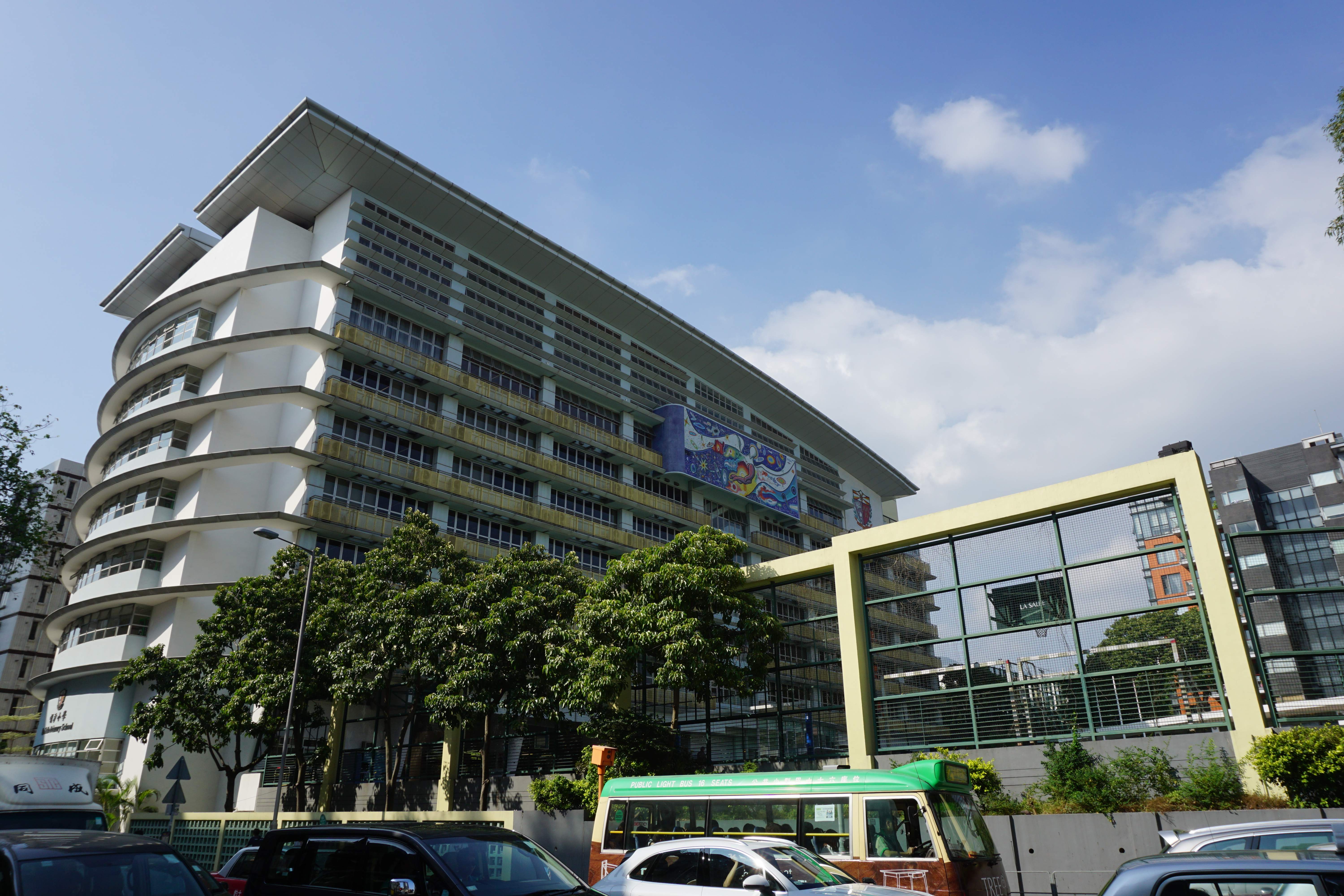 La Salle Primary School in Kowloon Tsai, Hong Kong.